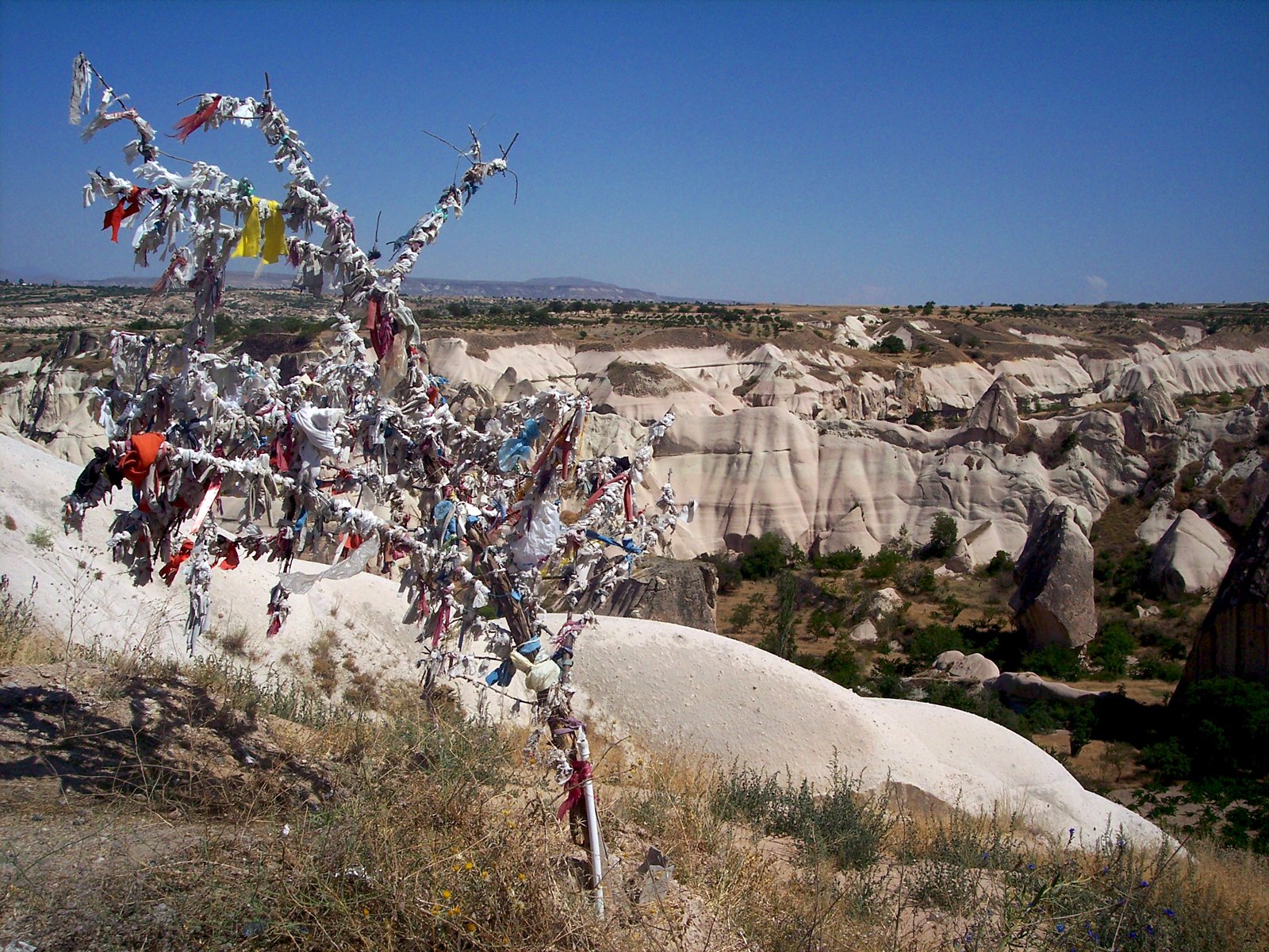 A wish tree in Cappadocia/Nevşehir/Turkey. The valley seen behind is Avcılar Valley. Wish tree is an important figure in Turkish mythology and folklore and is still respected among common people today. Main practice with wish trees, as seen with the one shown, is tying small pieces of fabric to branches of the tree. It's believed that by this one's wish will be granted. The practice itself is not a part of Islamic culture.